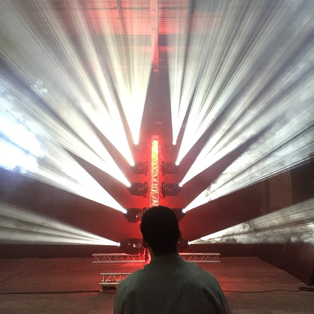 Photo taken by Jim Hutchison from at the CHAUVET Professional photo studio, 7 February 2015, with a Sony NEX5N. The photo includes the ROGUE RH1 Hybrid from CHAUVET Professional.